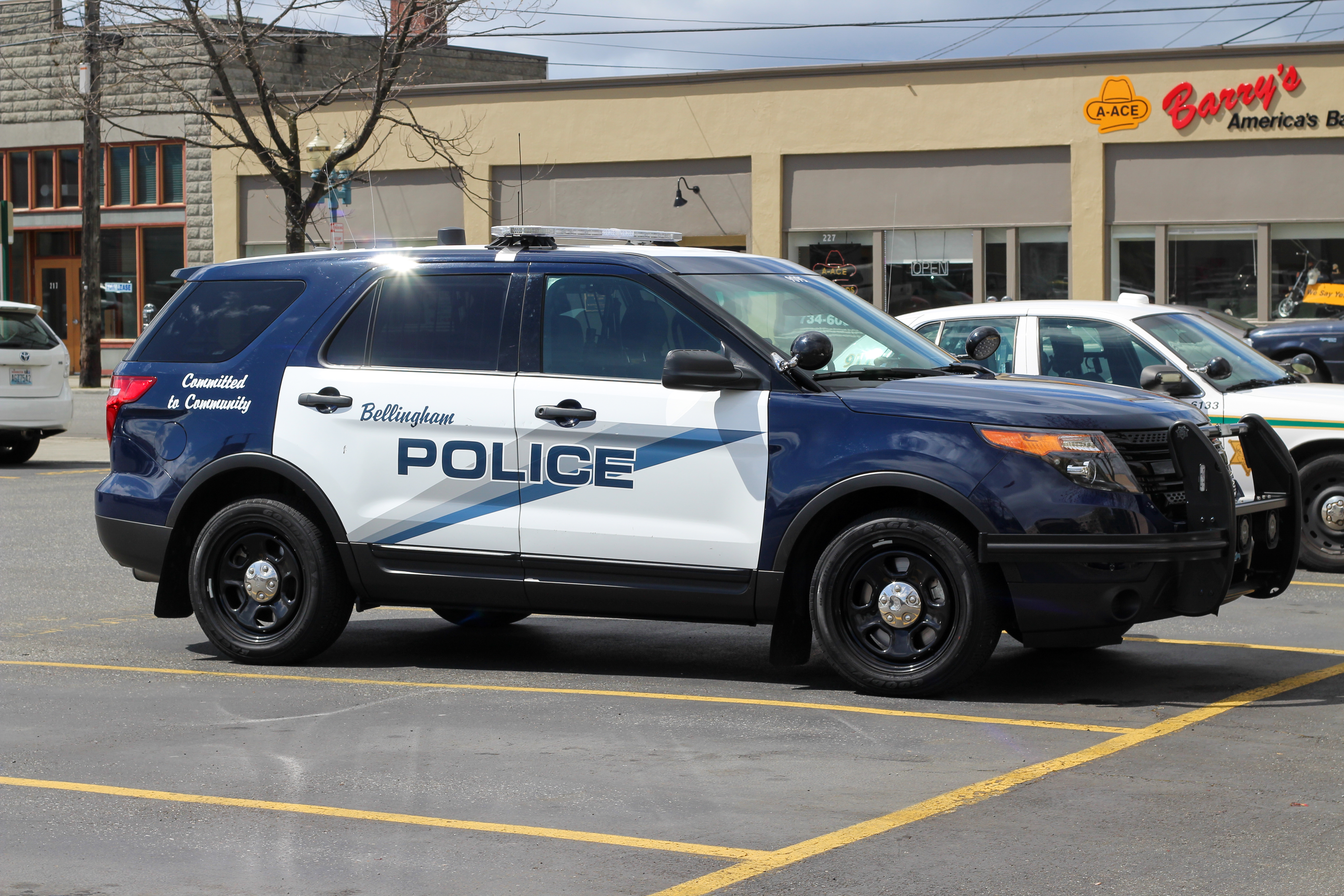 Bellingham, WA Police: Ford Police Utility